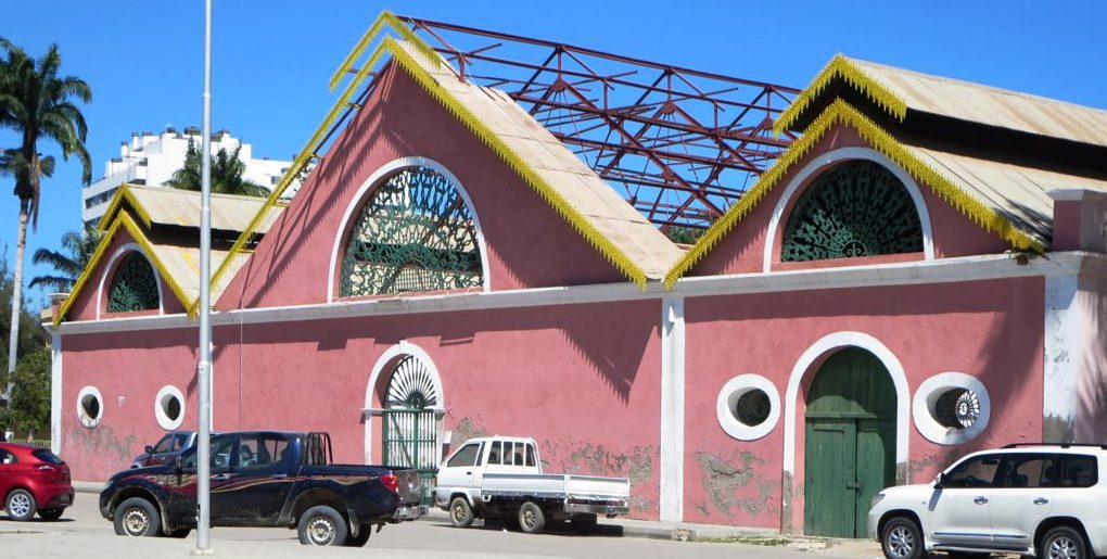 The Museu Nacional de Arqueologia in Benguela, Angola, is housed in an 18th century waterfront warehouse where slaves were held before being shipped to Brazil.